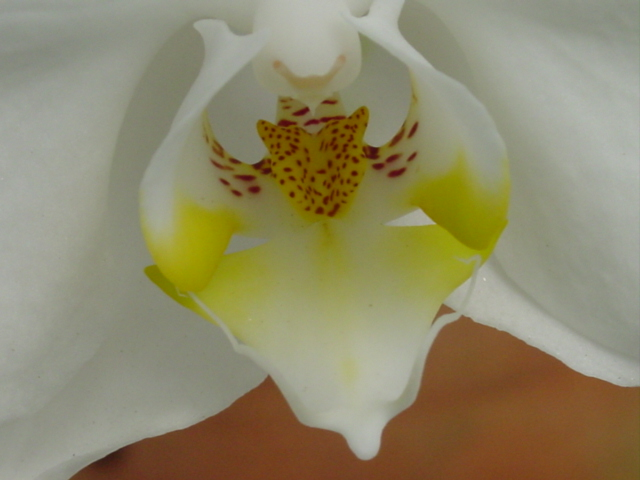 Close up of the labellum of a Phalaenopsis cultivated in the Rio de Janeiro Botanical Garden. Photo by M. A. P. Accardo Filho.